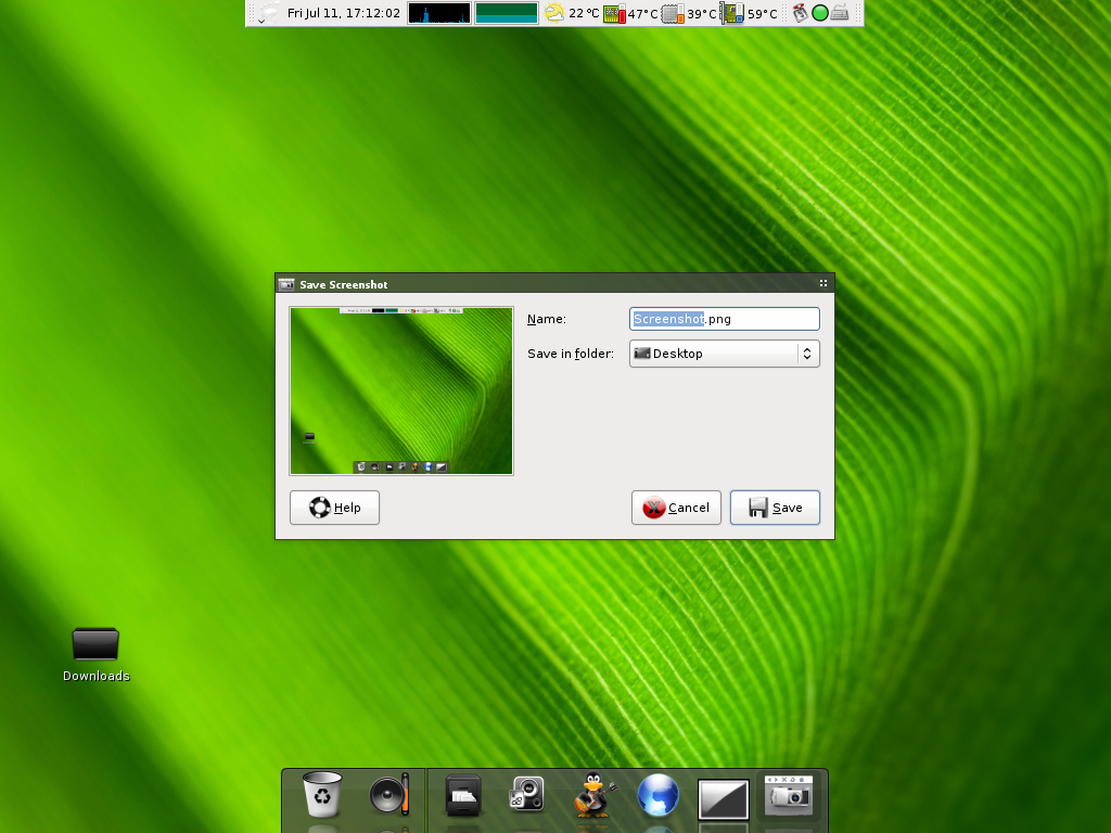 gnome-screenshot taking a screenshot.